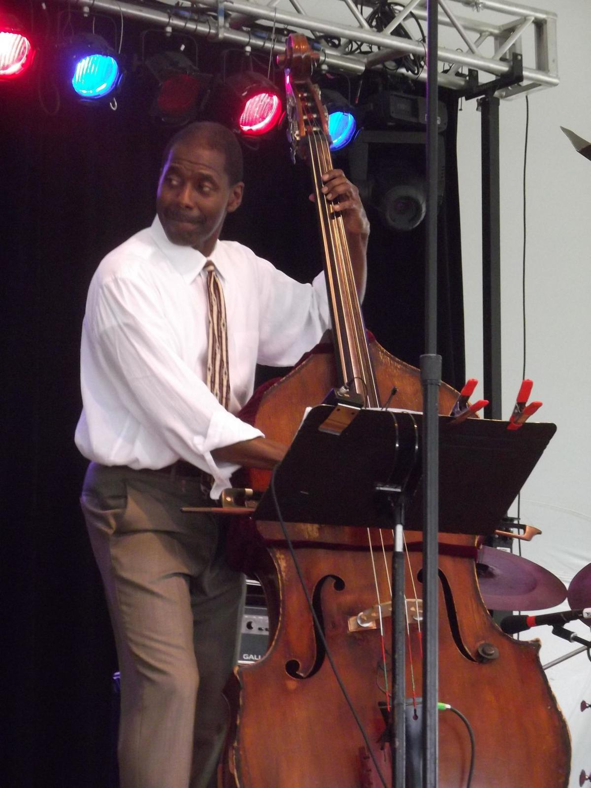 Avery Sharpe at Lichfield Jazz Festival in 2013